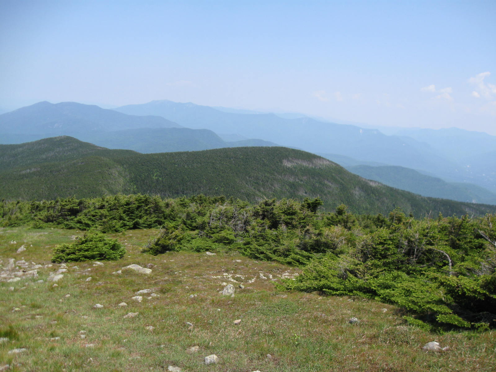 Mount Blue (New Hampshire), from Mount Moosilauke. Photo by Ken Gallager, June 16, 2011.